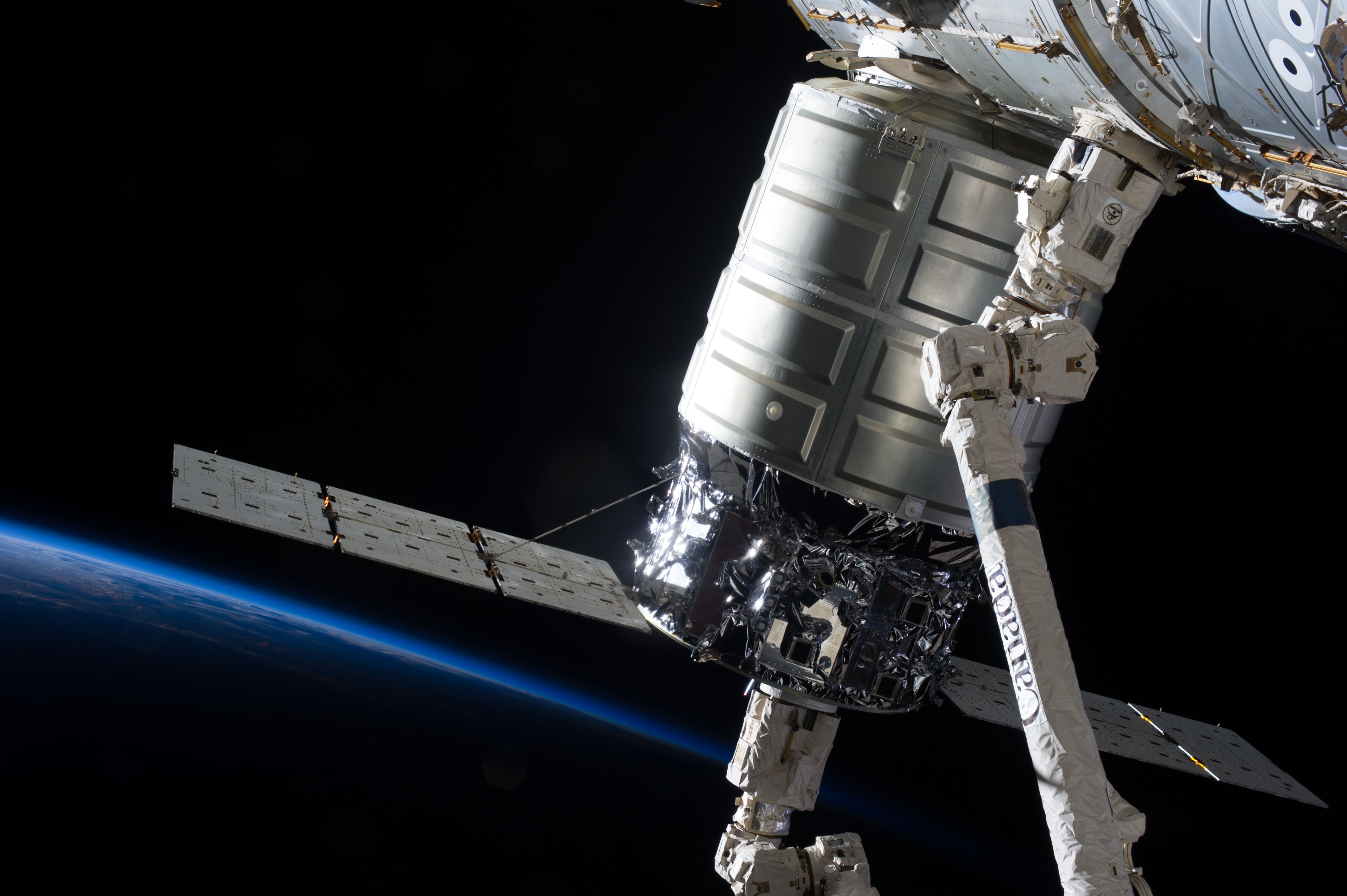 ISS037-E-006296 (5 Oct. 2013) --- Attached to the Harmony node, the first Cygnus commercial cargo spacecraft built by Orbital Sciences Corp., in the grasp of the Canadarm2, is photographed by an Expedition 37 crew member on the International Space Station. The two spacecraft converged at 7:01 a.m. EDT on Sept. 29, 2013. The thin line of Earth's atmosphere provides the backdrop for the scene.